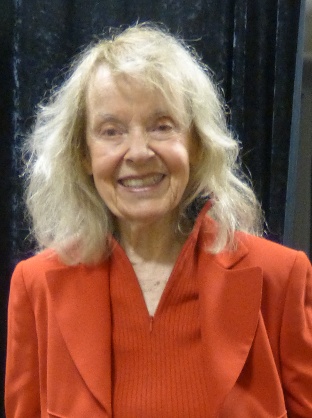 A photo of Janet Waldo